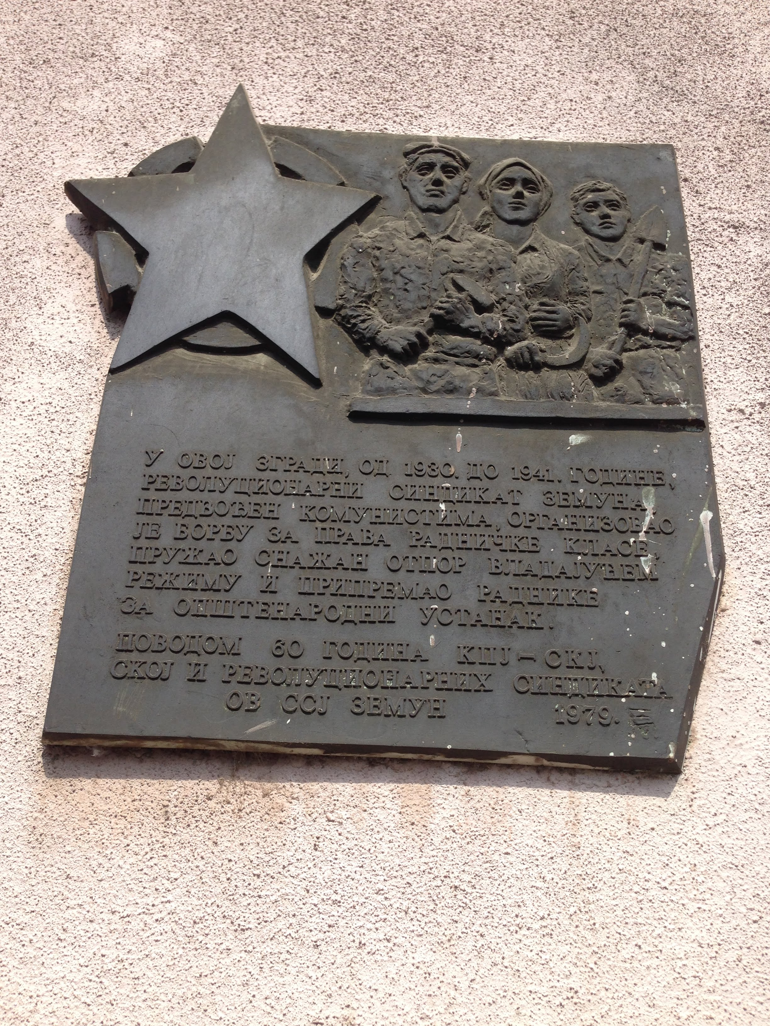 Đorđe Pantelić Street, Zemun, Belgrad